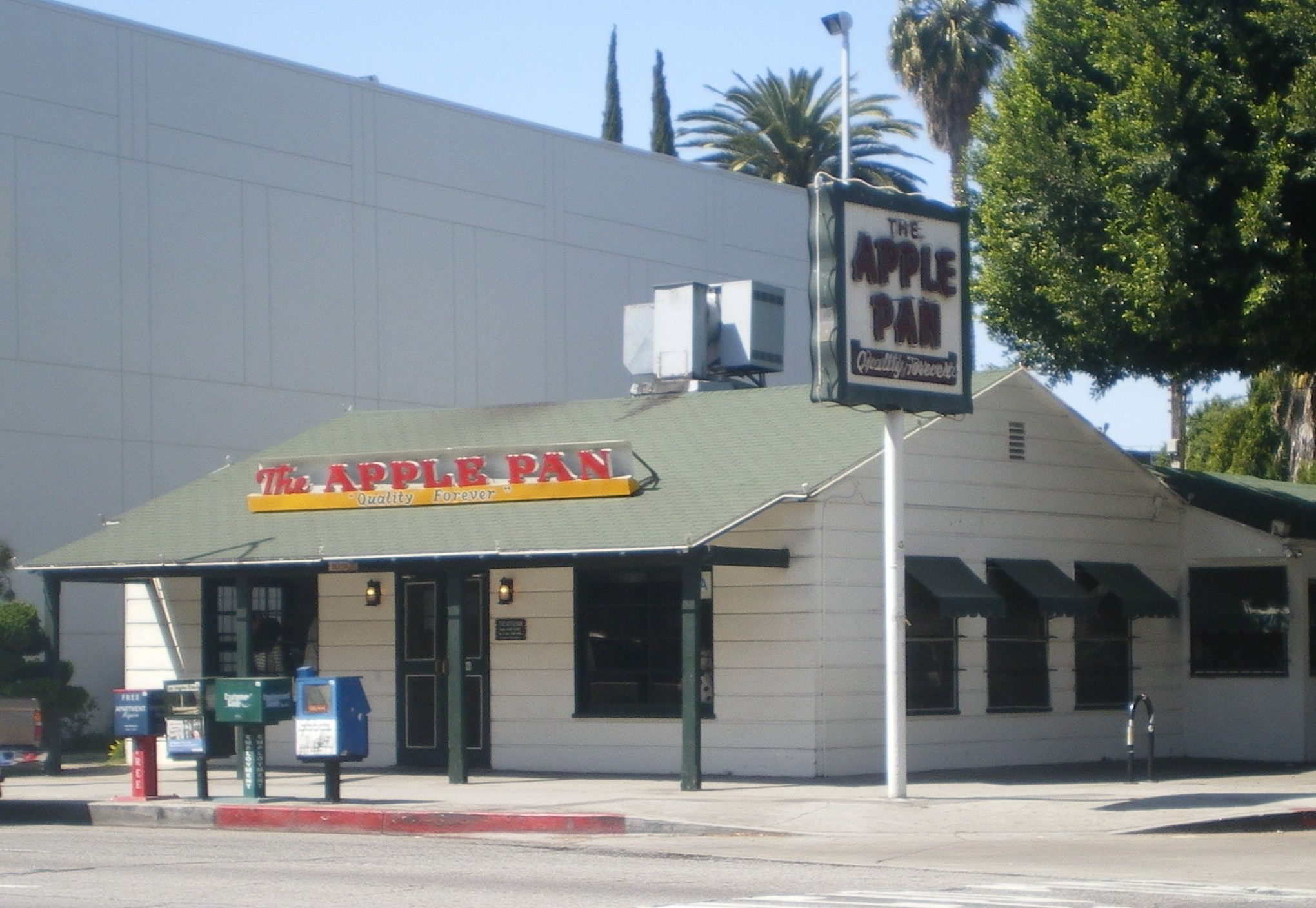 The Apple Pan, Pico Blvd., Los Angeles, CA The Apple Pan, Pico Blvd., Los Angeles, CA